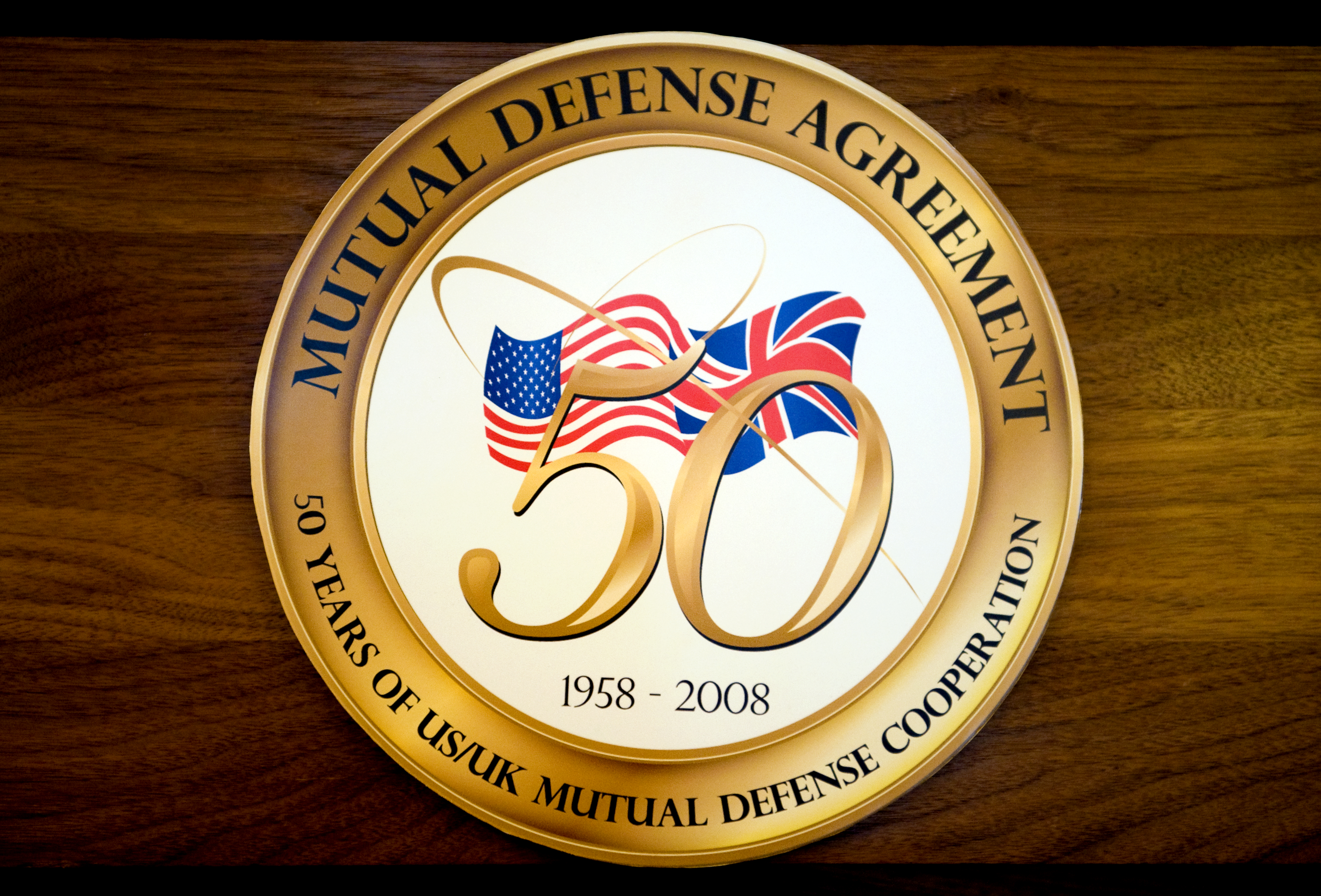 U.S. Defense Secretary Robert M. Gates hosts a reception commemorating the 50th anniversary of the Mutual Defense Agreement between the United States and the United Kingdom with UK Defense Minister Des Browne at the State Department in Washington, D.C., July 9, 2008.